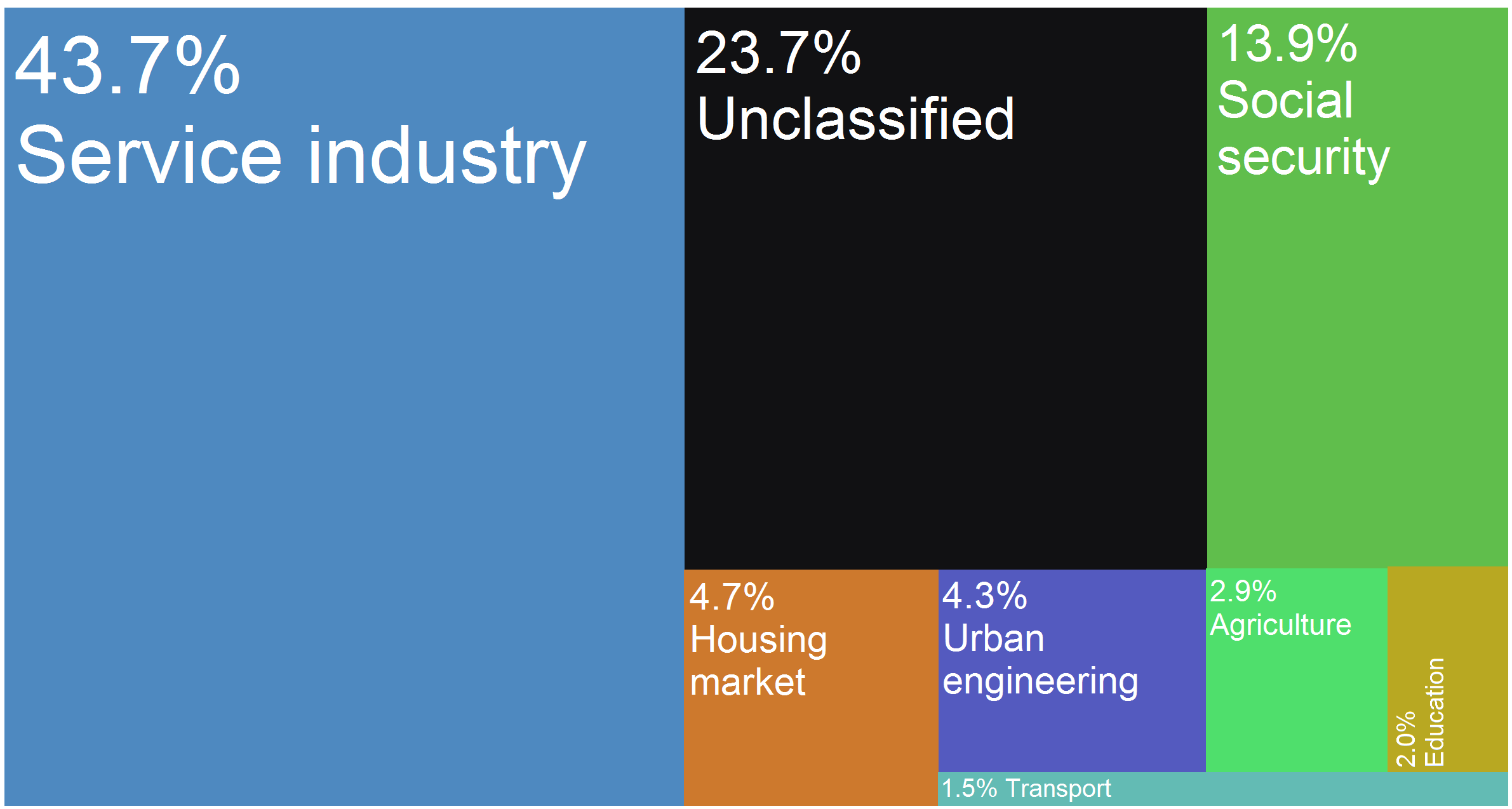 Diagram illustrating the city's budget sources.